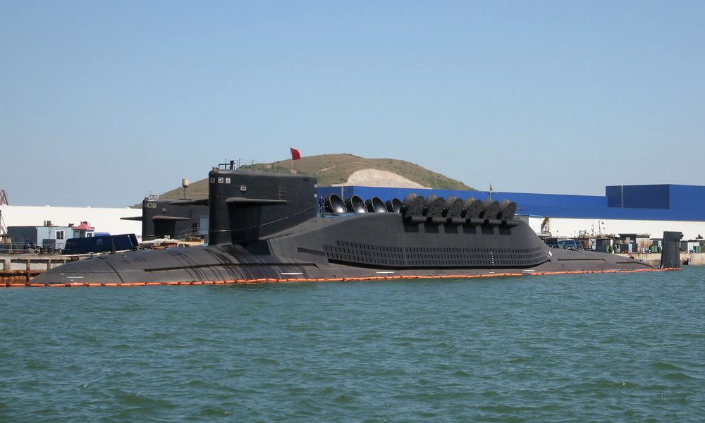 CSR Report RL33153 China Naval Modernization: Implications for U.S. Navy Capabilities—Background and Issues for Congress by Ronald O'Rourke dated February 28, 2014. Page 8 - Figure 1. Jin (Type 094) Class Ballistic Missile Submarine Source: Photograph provided to CRS by Navy Office of Legislative Affairs, December 2010.